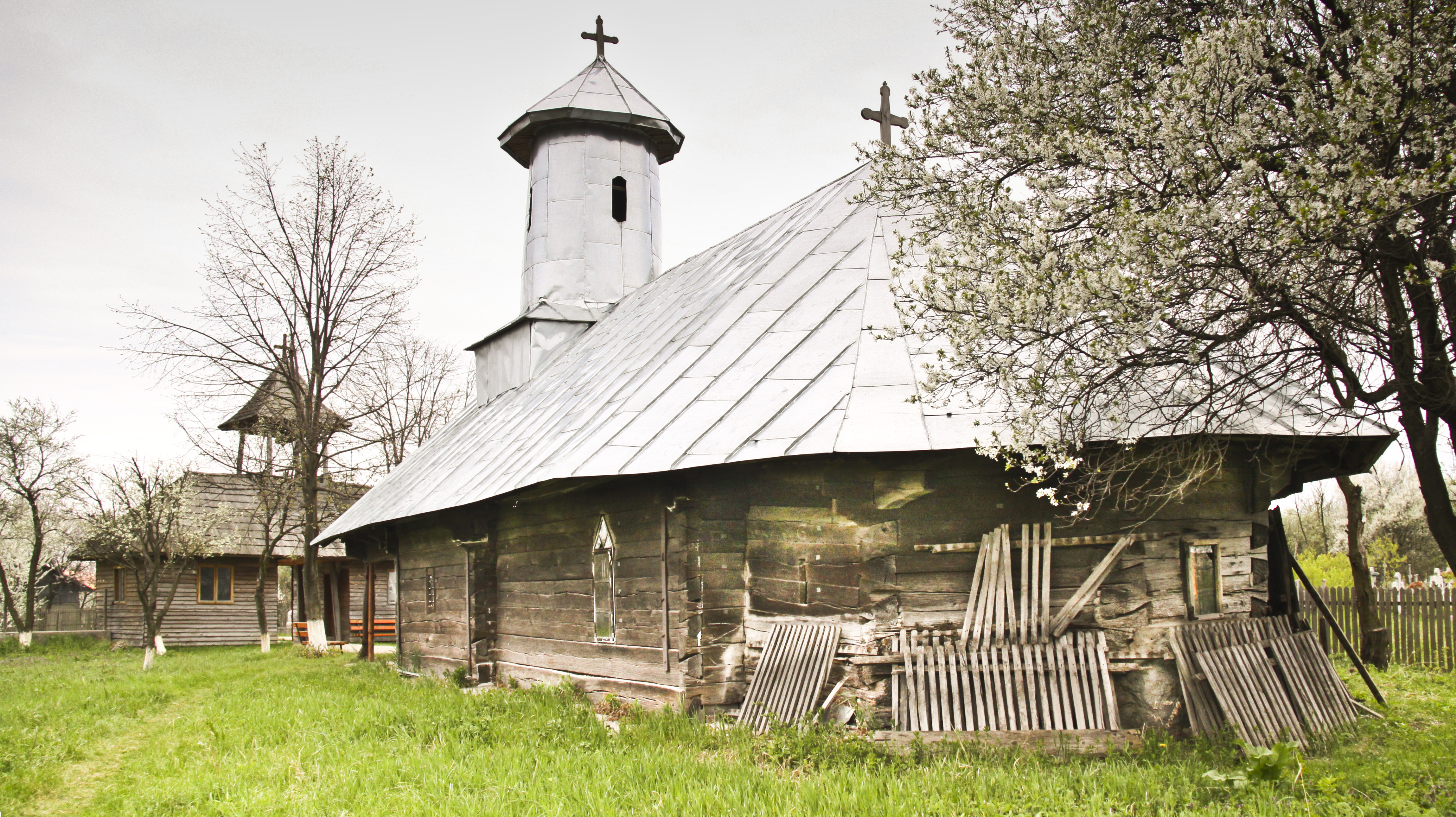 Drăceşti, Teleorman county, Romania: the wooden church.